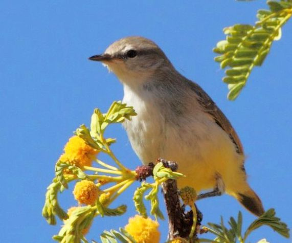 A Yellow-bellied Eremomela in Klein Pella, Northern Cape, South Africa.